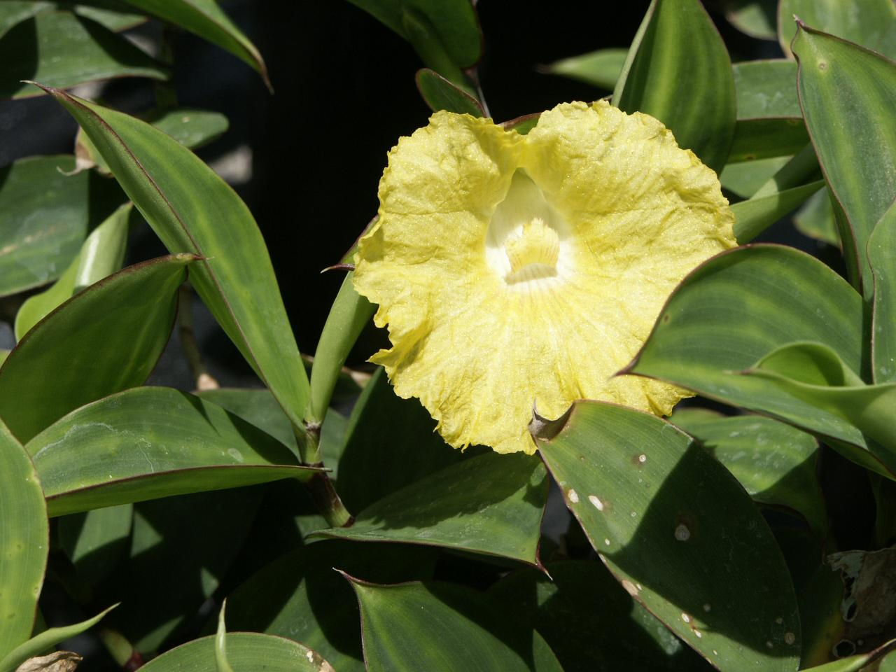 Fairchild Tropical Botanic Garden, Miami, FL